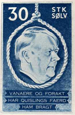 Anonymous Norwegian stamp proposal from 1941 satirising Vidkun Quisling. The caption reads "Quisling's conduct has brought dishonor and contempt on himself".